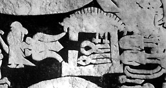 Völund's (Weyland) smithy in the centre, Níðuð's daughter to the left, and Níðuð's dead sons hidden to the right of the smithy. Between the girl and the smithy, Völund can be seen in an eagle fetch flying away. From the Ardre image stone VIII. Part of ancient picture stone showing figures from Norse mythology.